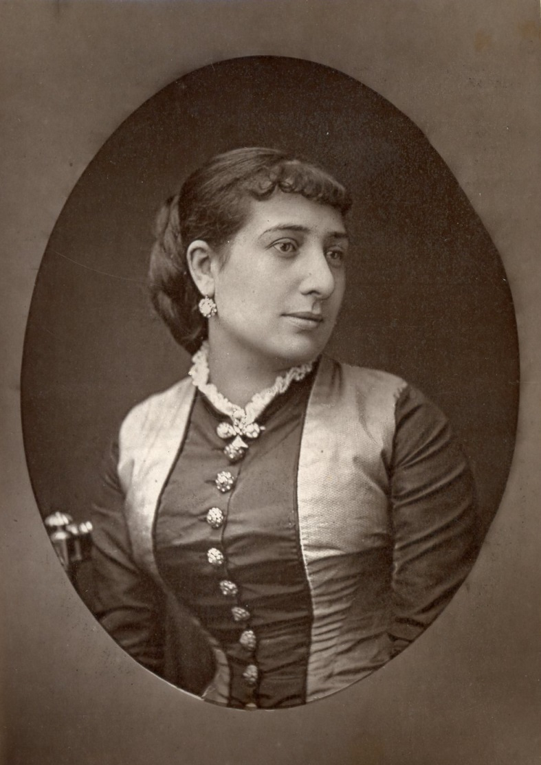 Photograph of the opera-singer Émilie Ambre (1849/54—1898)